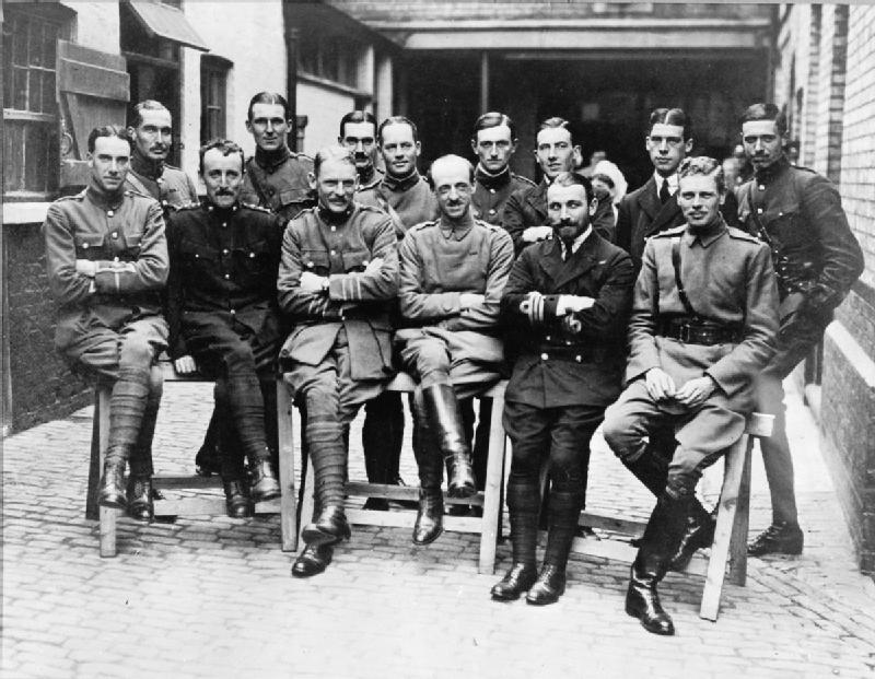 A group of officers of the Royal Flying Corps. These men were among the first flying and administrative officers of the RFC, and some of the first pilots ever qualified by the Royal Aero Club. The officers are (left to right) Lieutenant Geoffrey de Havilland Captain (later Lt-Col.) George William Patrick Dawes, D.S.O, Legion d'Honneur, Croix de Guerre[1][2][3] Captain Robert Gordon, R.M.[1] Lieutenant Vivian H. N. Wadham[1] (killed in action 17th January 1916)[4] Major Robert Brooke-Popham Lieutenant Patrick Playfair Lieutenant Ronald L. Charteris[1] (founded ABC Motors) Major Frederick Sykes Lieutenant Alexander Ernest Burchardt-Ashton[1] (Resigned commission in RFC because drunk while flying at Brooklands; transferred to Dragoon Guards. Re-enlisted in 22 Bn. Royal Fusiliers, Lance-Corporal; killed near Ypres 10/11 July 1916.)[5][6][7] Lieutenant L'Estrange Malone Commander Charles Samson, R.N. Lieutenant Spenser D. A. Grey[1] Lieutenant Basil Herbert Barrington-Kennett, Grenadier Guards (first adjutant of the RFC, killed while serving in the Guards, 18 May 1915)[8] Lieutenant Alan Geoffrey Fox (died of wounds sustained while flying, May 1915)[8] References: ↑ a b c d e f Jane's All the World's Aircraft 1913, pp. 34, 35 ↑ George William Patrick Dawes. Grace's Guide. ↑ "Steady, Colonel" ↑ Captain V H N Wadham, RFC ↑ Great War forum ↑ Alexander Ernest Burchardt-Ashton. Graces's Guide ↑ "Alexander Ernest Burchardt-Ashton". Great War Commemoration. ↑ a b Aeronautical Journal, April-June 1915, p. 79